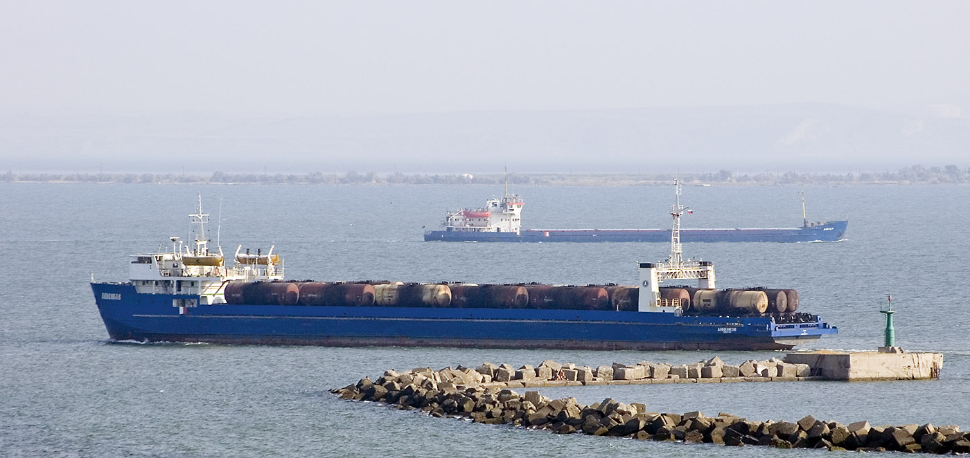 Train ferry «Annenkov» is departing from Port Krym